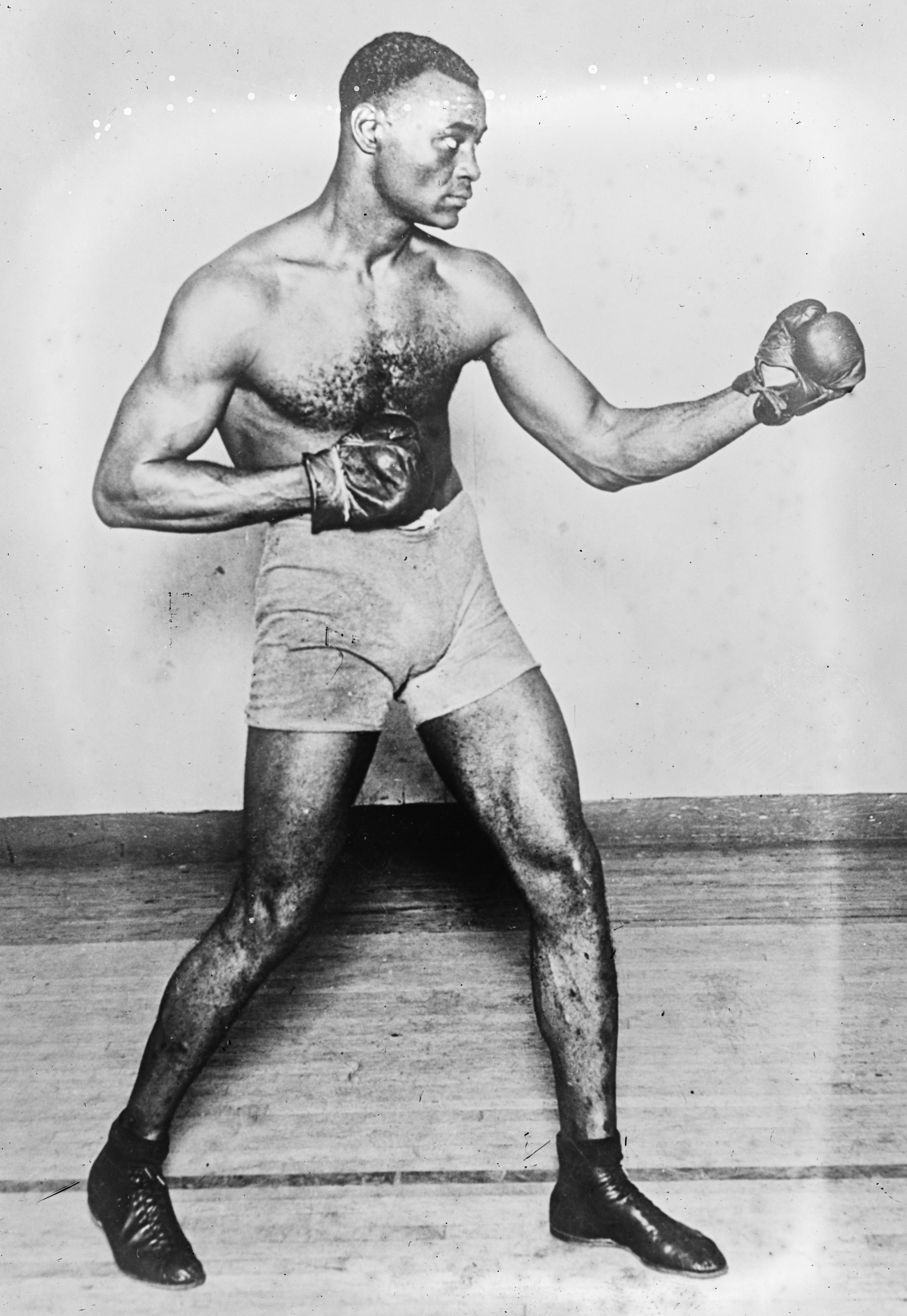 Portrait of American boxer Harry Wills: [press photograph]